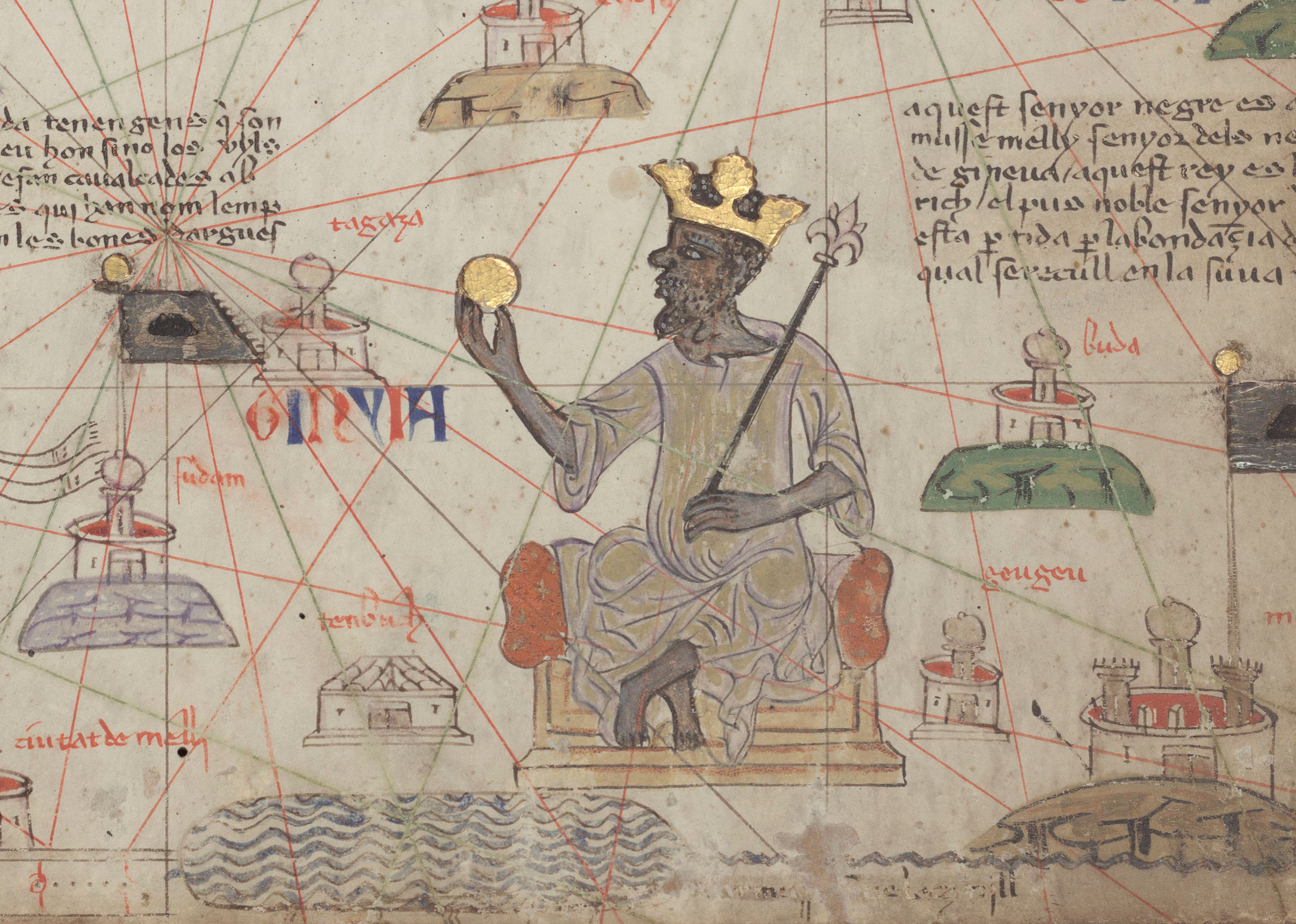 Sheet 6 out of 12. Detail showing Mansa Musa sitting on a throne and holding a gold coin